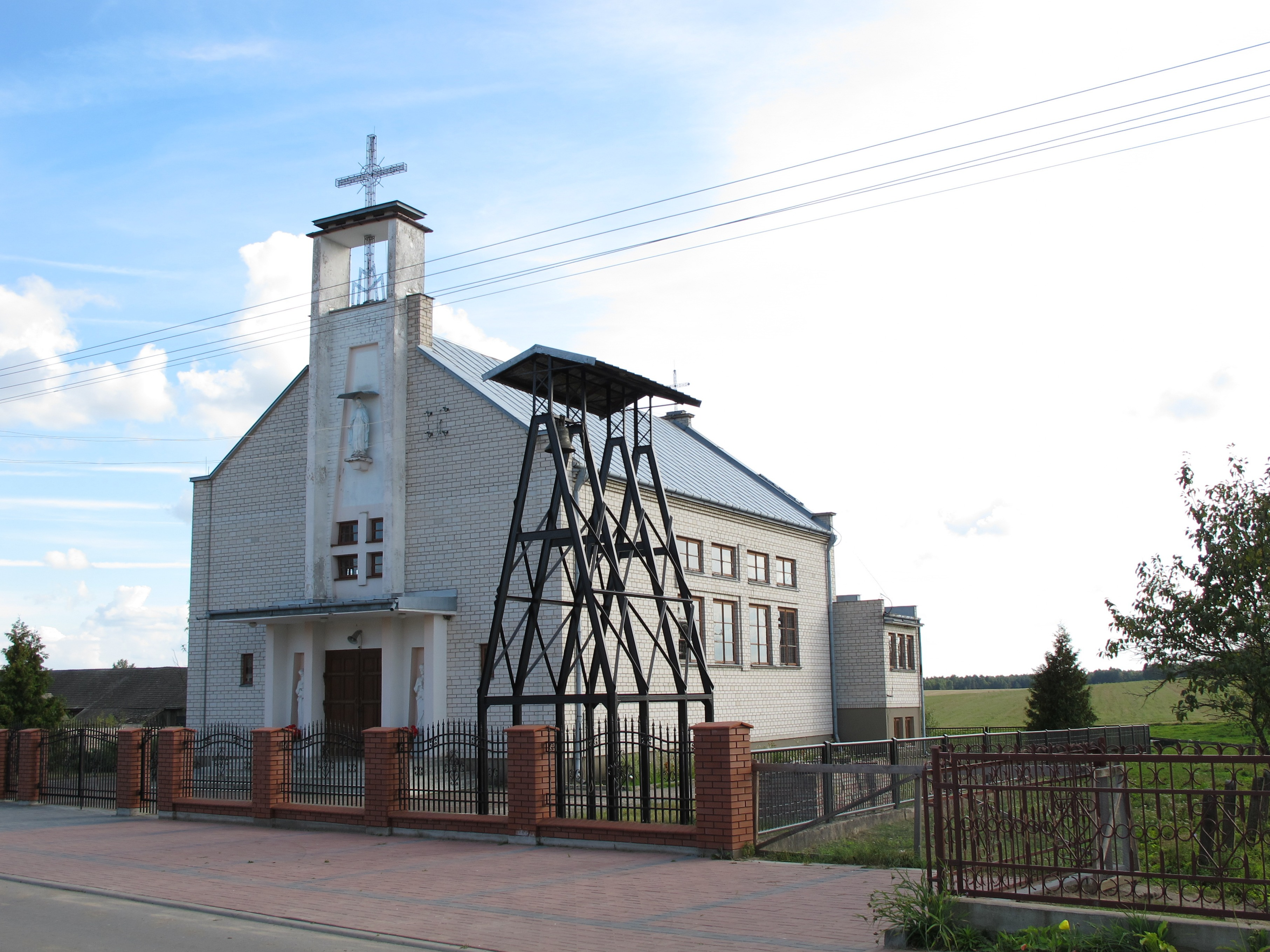 Our Lady of Perpetual Help chapel (1984) in Załuskie Koronne, gmina Brańsk, podlaskie, Poland